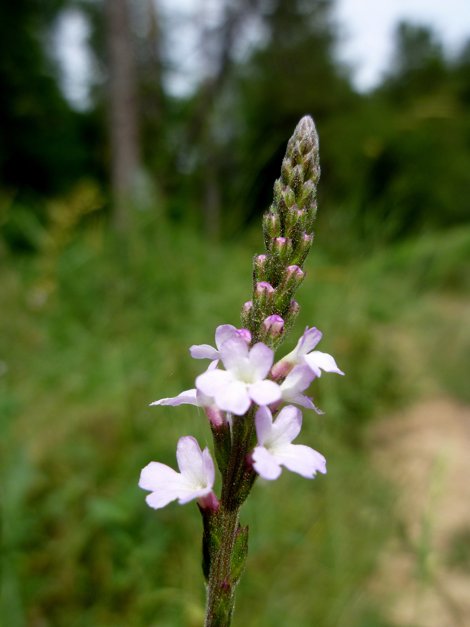 (Verbena officinalis). In Torà (Segarra - Catalunya). To 585 m. altitude